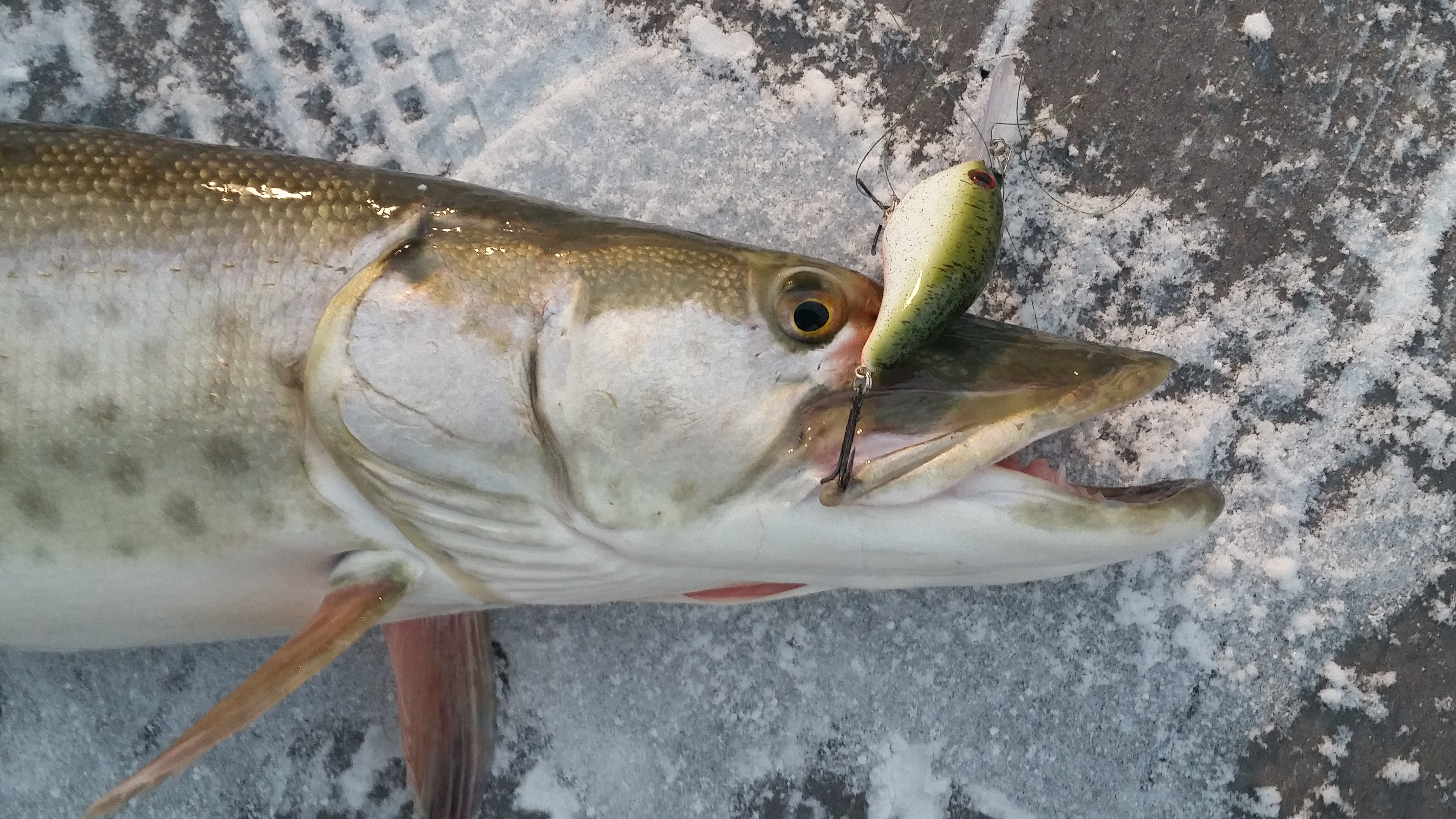 A spotted muskellunge (Esox masquinongy) caught in Lake Saint Clair during the winter (38.5 inches). Released.